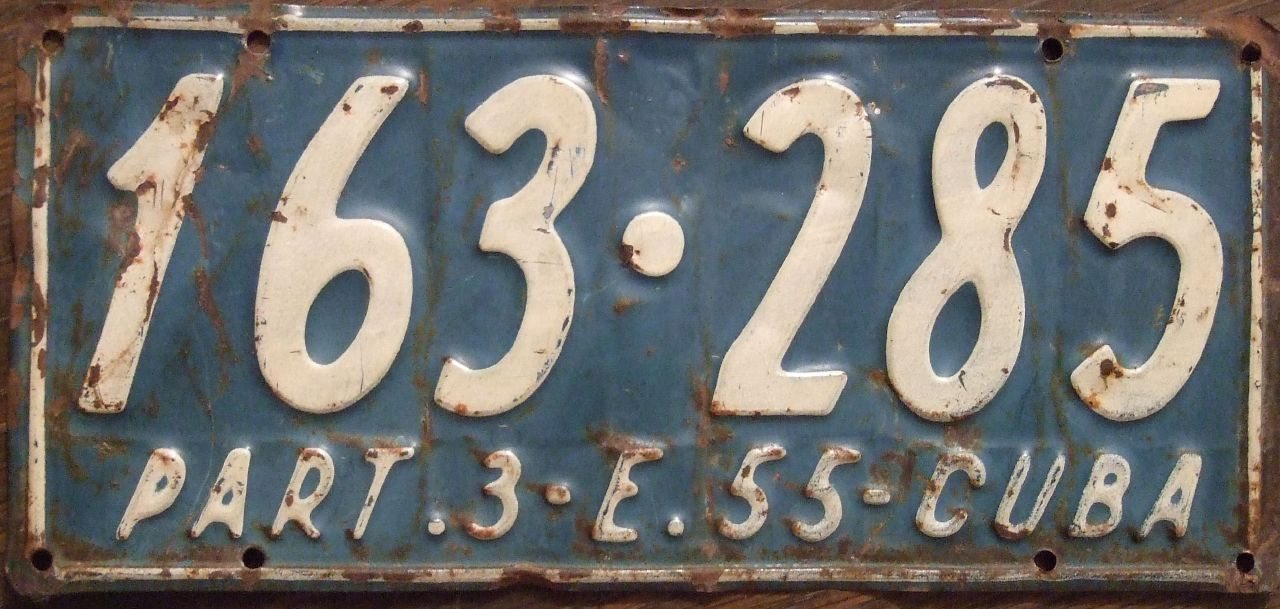 1955 Cuban license plate from the pre Castro era.